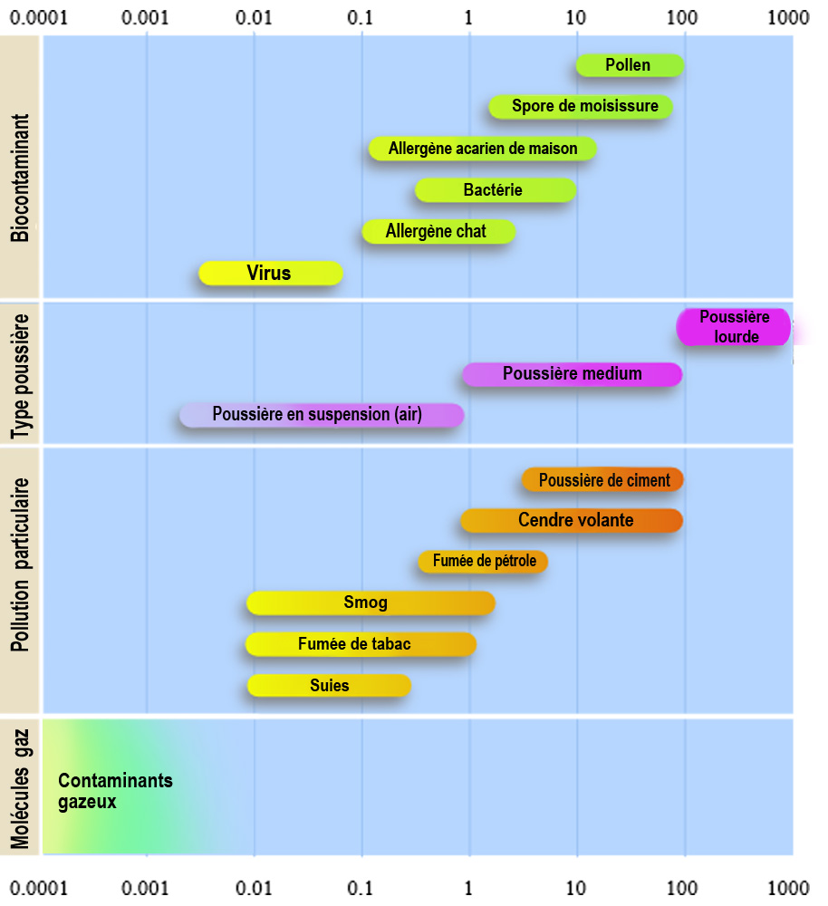 Airborne particles are commonly either biological contaminants, particulate contaminants, gaseous contaminants, or dust. This diagram shows the size distribution in micrometres (µm) of various types of airborne particles.